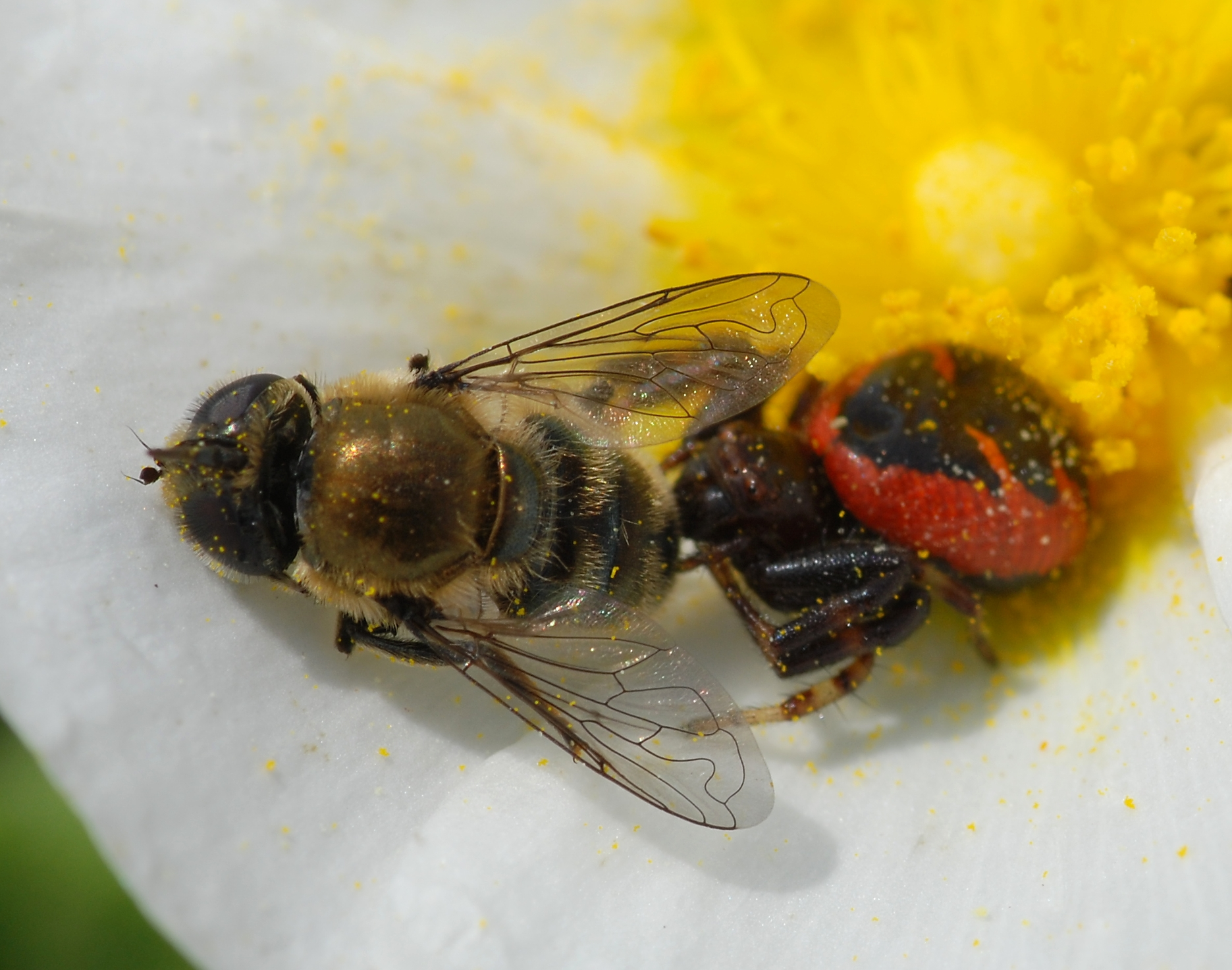 Spider (Synema globosum) capturing a fly